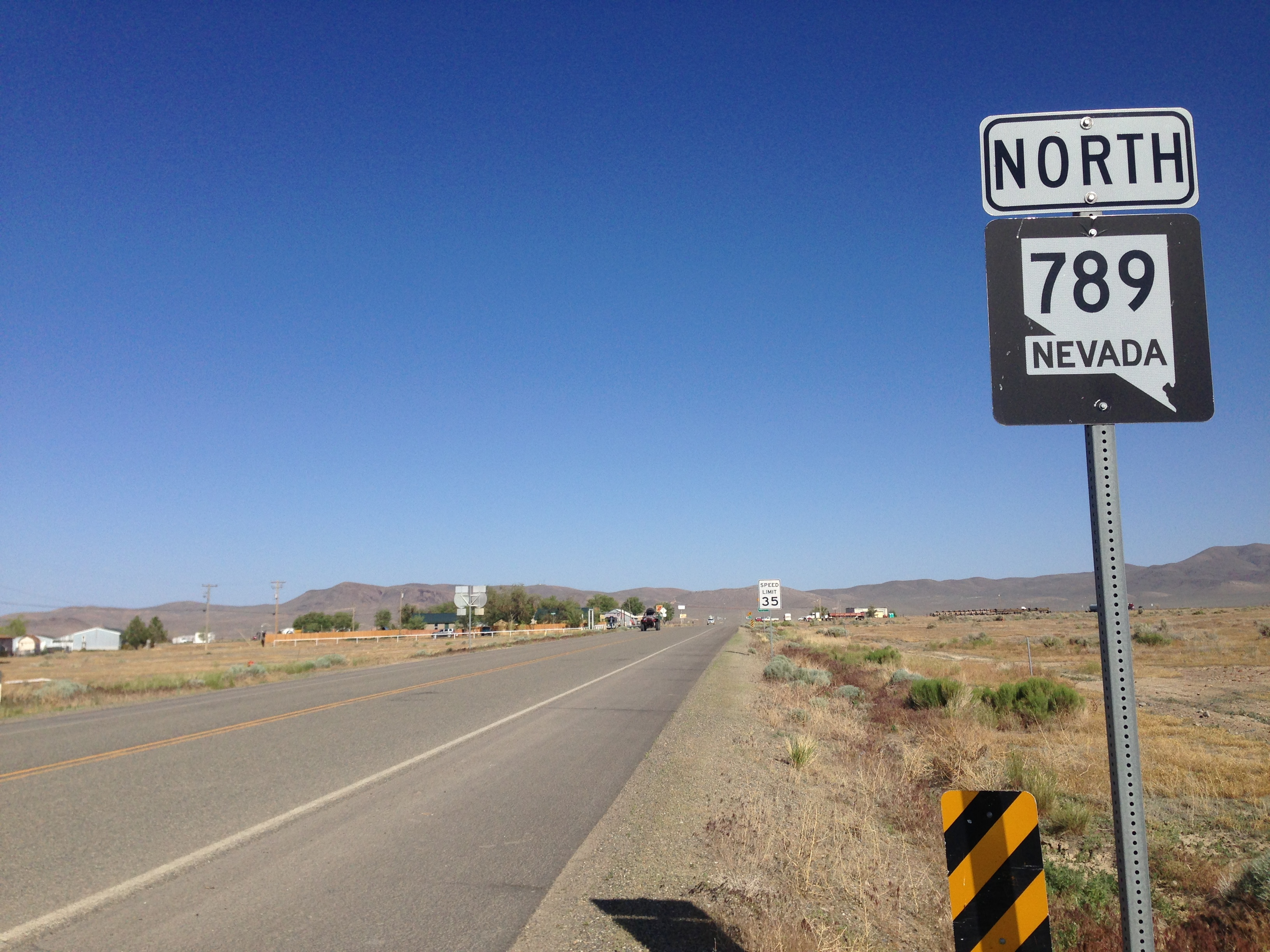 First reassurance shield along northbound Nevada State Route 789 in Golconda, Nevada